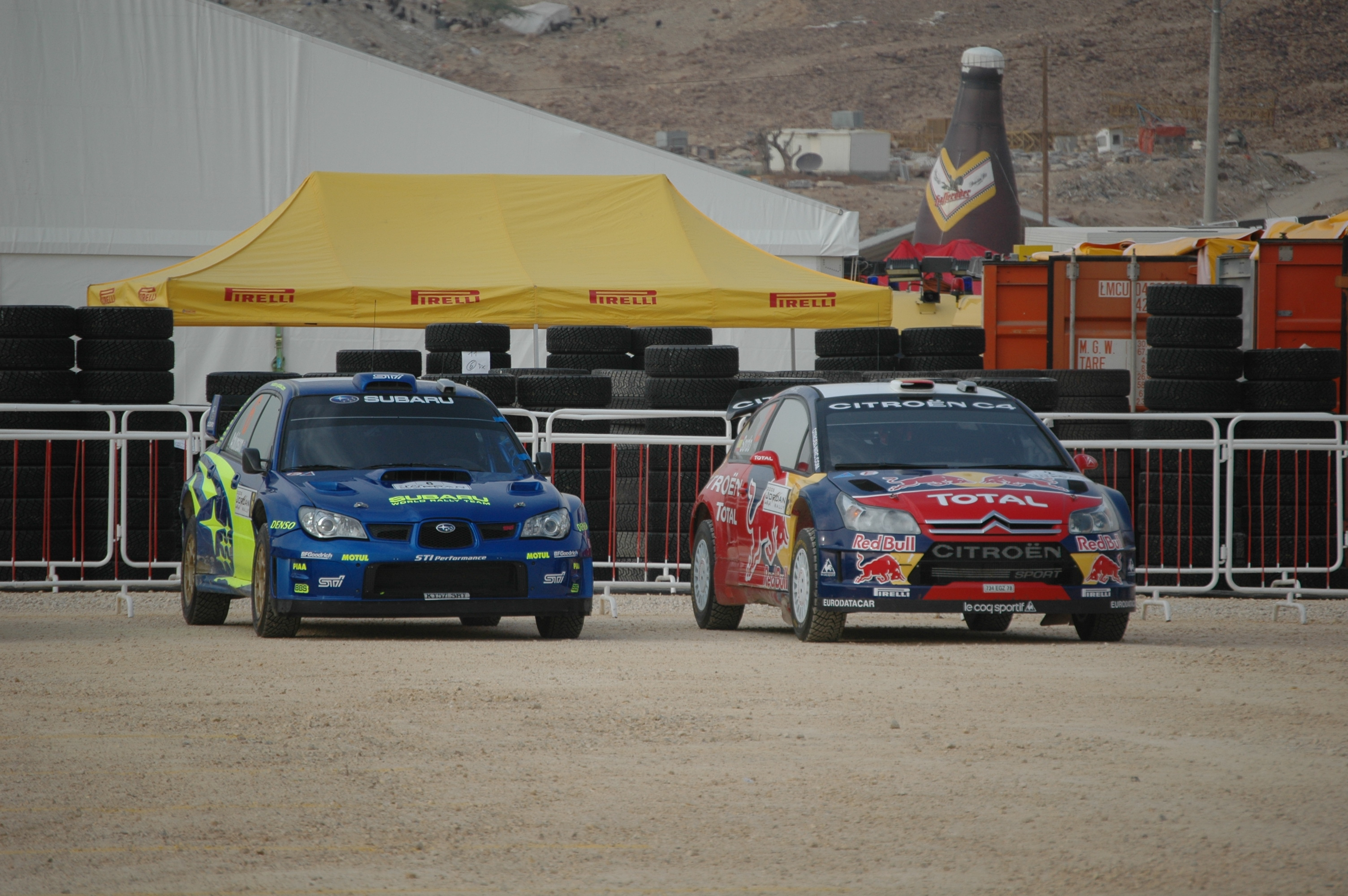 Chris Atkinson's Subaru Impreza WRC2007 and Dani Sordo's Citroën C4 WRC during the 2008 Jordan Rally.